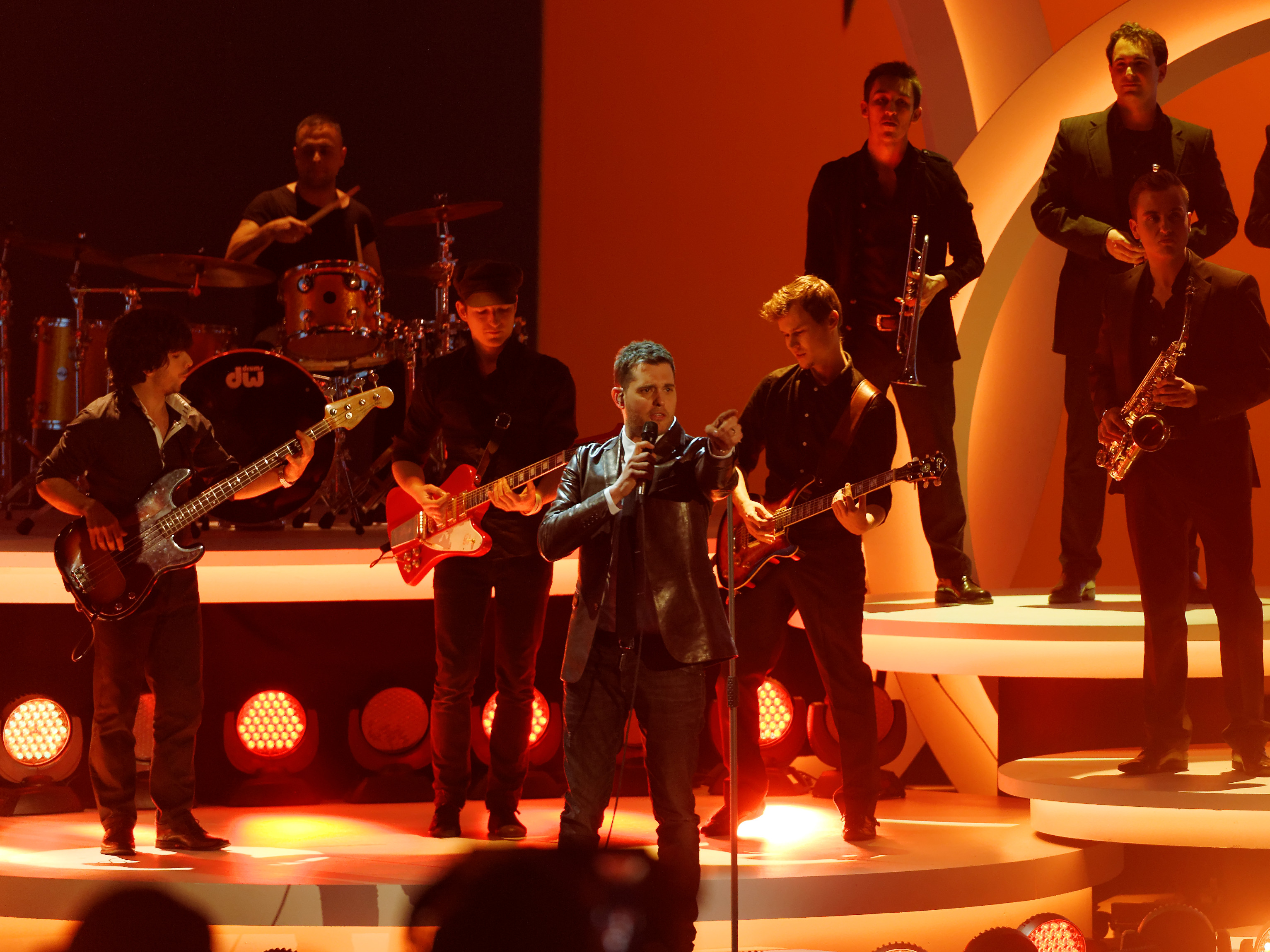 Wetten, dass.. ? am 23. März 2013 in der Stadthalle Wien The making of this document was supported by Wikimedia Austria. Michael Bublé